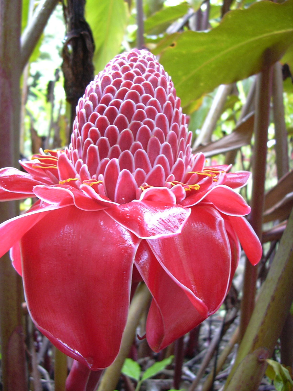 Phaeomeria magnifica (flower). Location: Maui, Keanae Arboretum